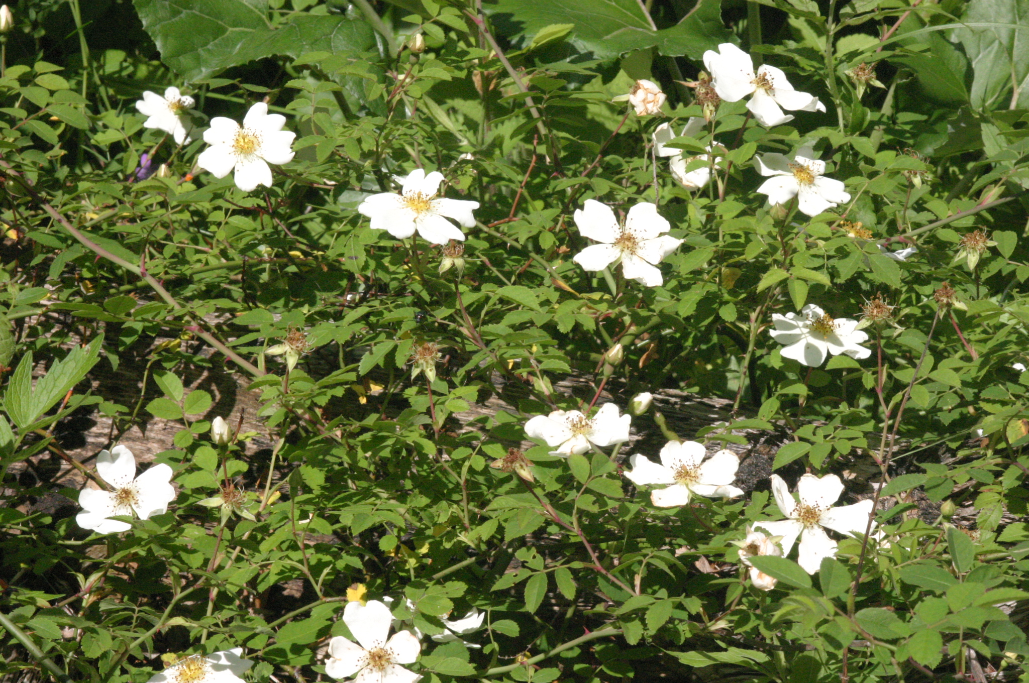 Rosa arvensis